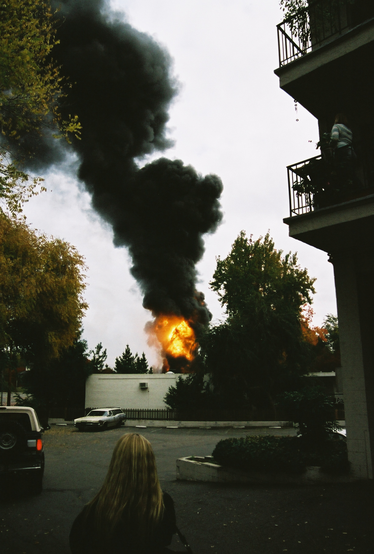 Walnut Creek Fire (Kinder Morgan Pipeline) Uploaded by User:Leonard G.